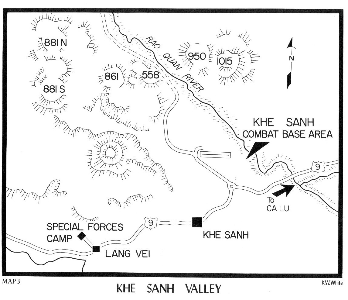 Map of the Khe Sanh valley, c. 1968